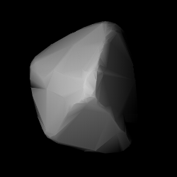 3D convex shape model of 2120 Tyumenia, computed using light curve inversion techniques. J. Hanuš, J. Ďurech, M. Brož, B. D. Warner (June 2011). "A study of asteroid pole-latitude distribution based on an extended set of shape models derived by the lightcurve inversion method". Astronomy and Astrophysics 530: A134. ISSN 0004-6361. arXiv